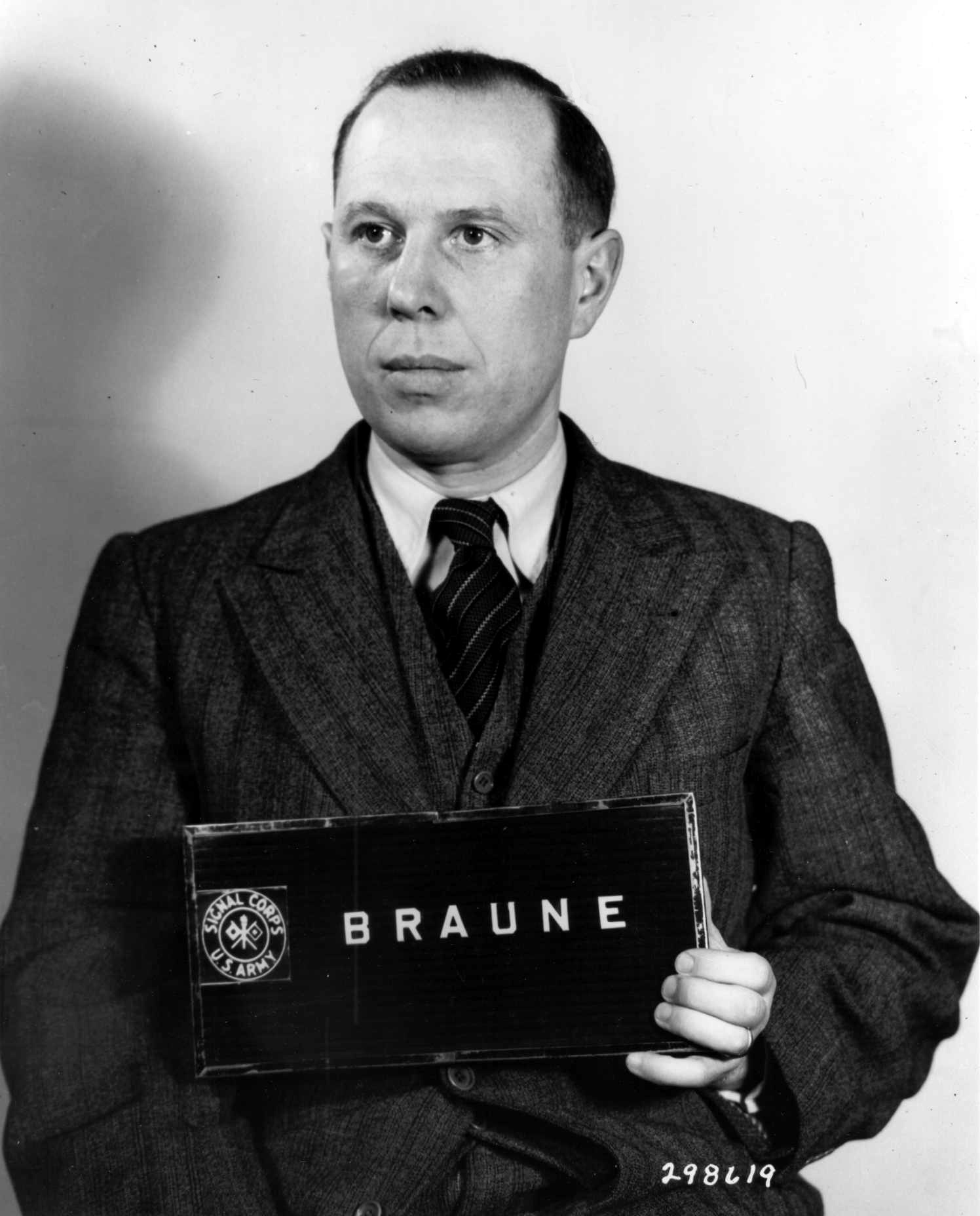 Werner Braune, former Obersturmbannführer in the SS, member of the SD and Gestapo, and commanding officer of sondercommando 11B of Einsatzgruppe D.